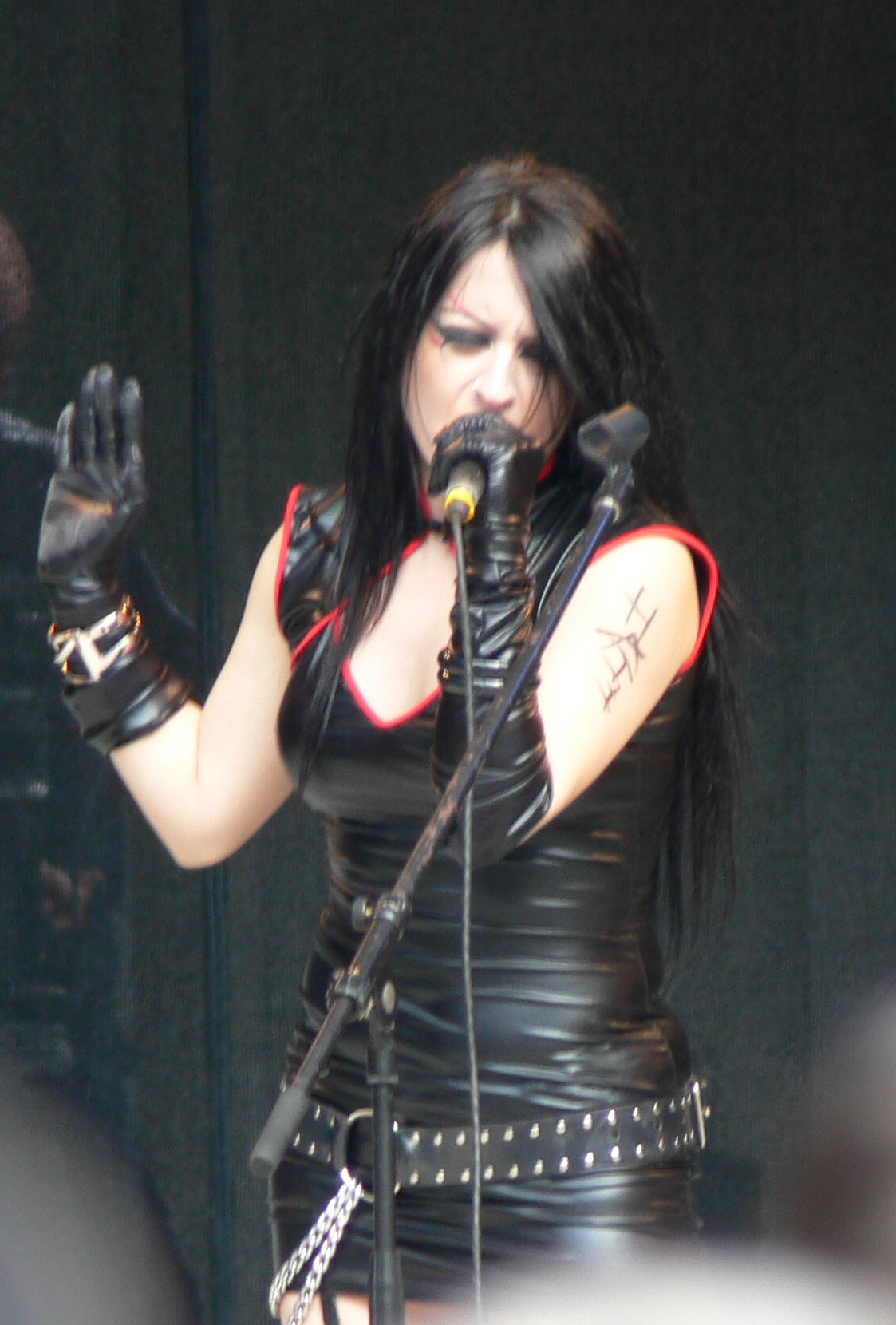 Theatre Des Vampires - Sonia Scarlet